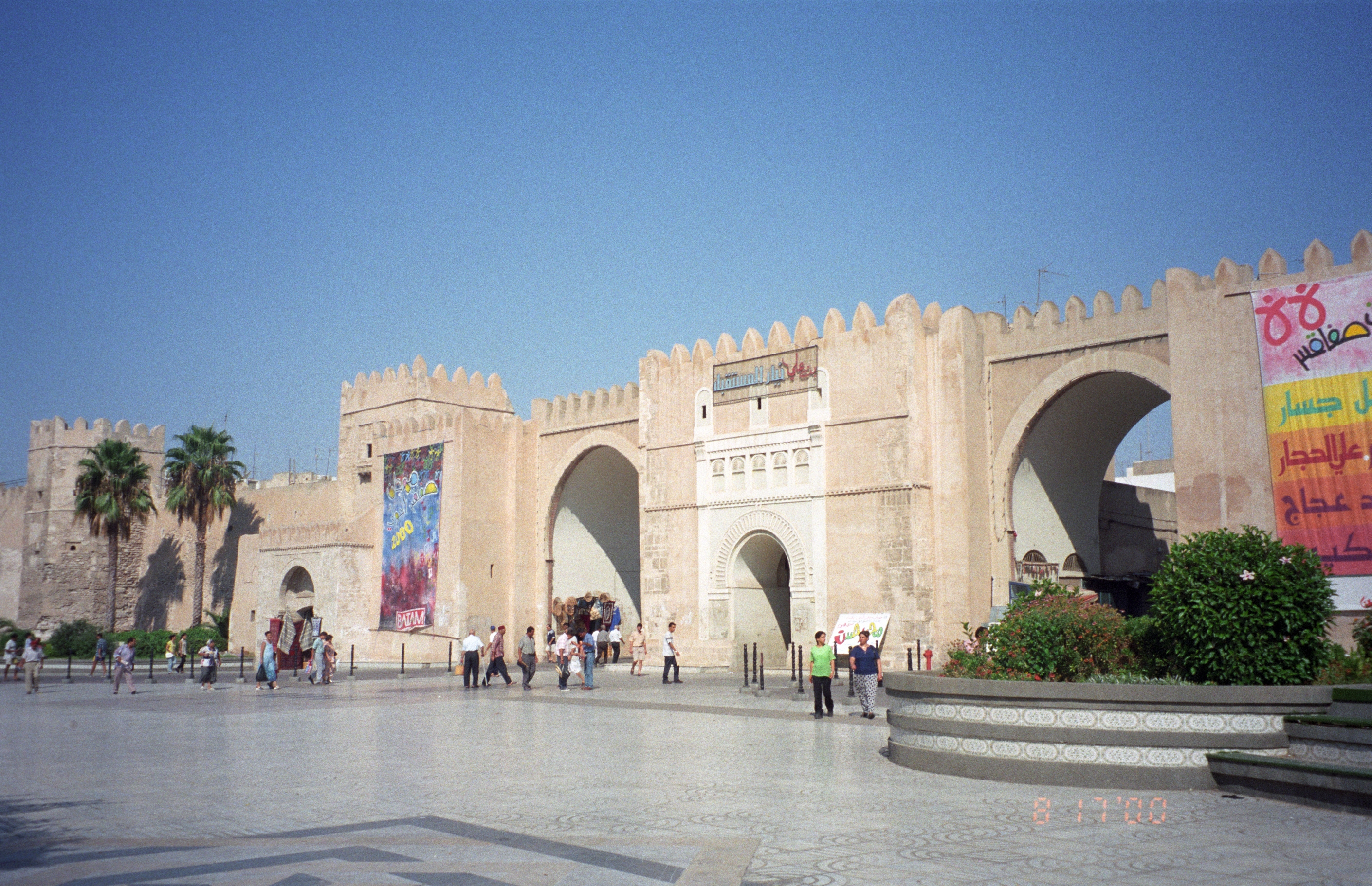 Bab Diwan : The main gate to the medina from the ville nouvelle, Sfax, Tunisia.